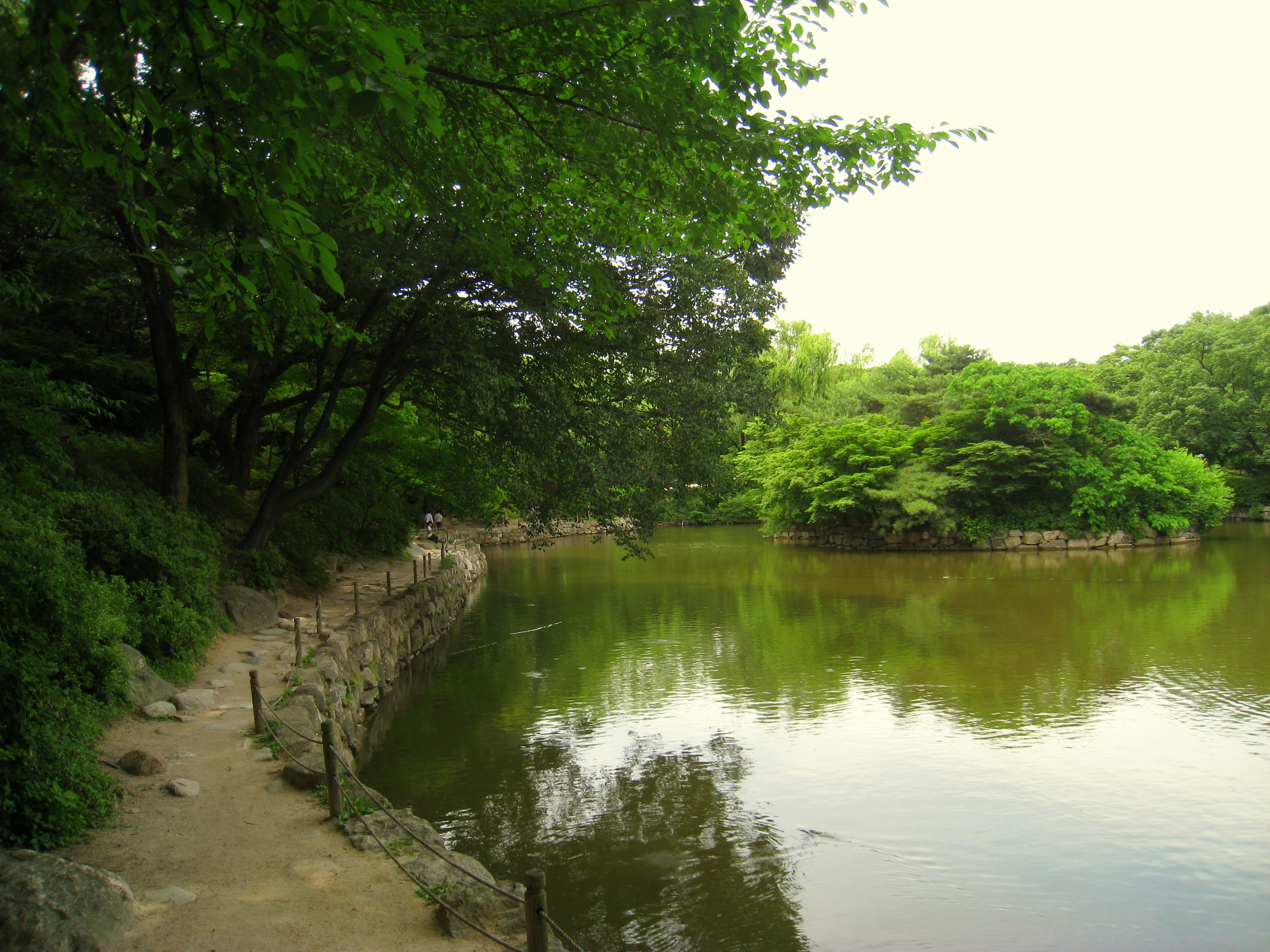 Pond, Changgyeonggung - Seoul, Korea.